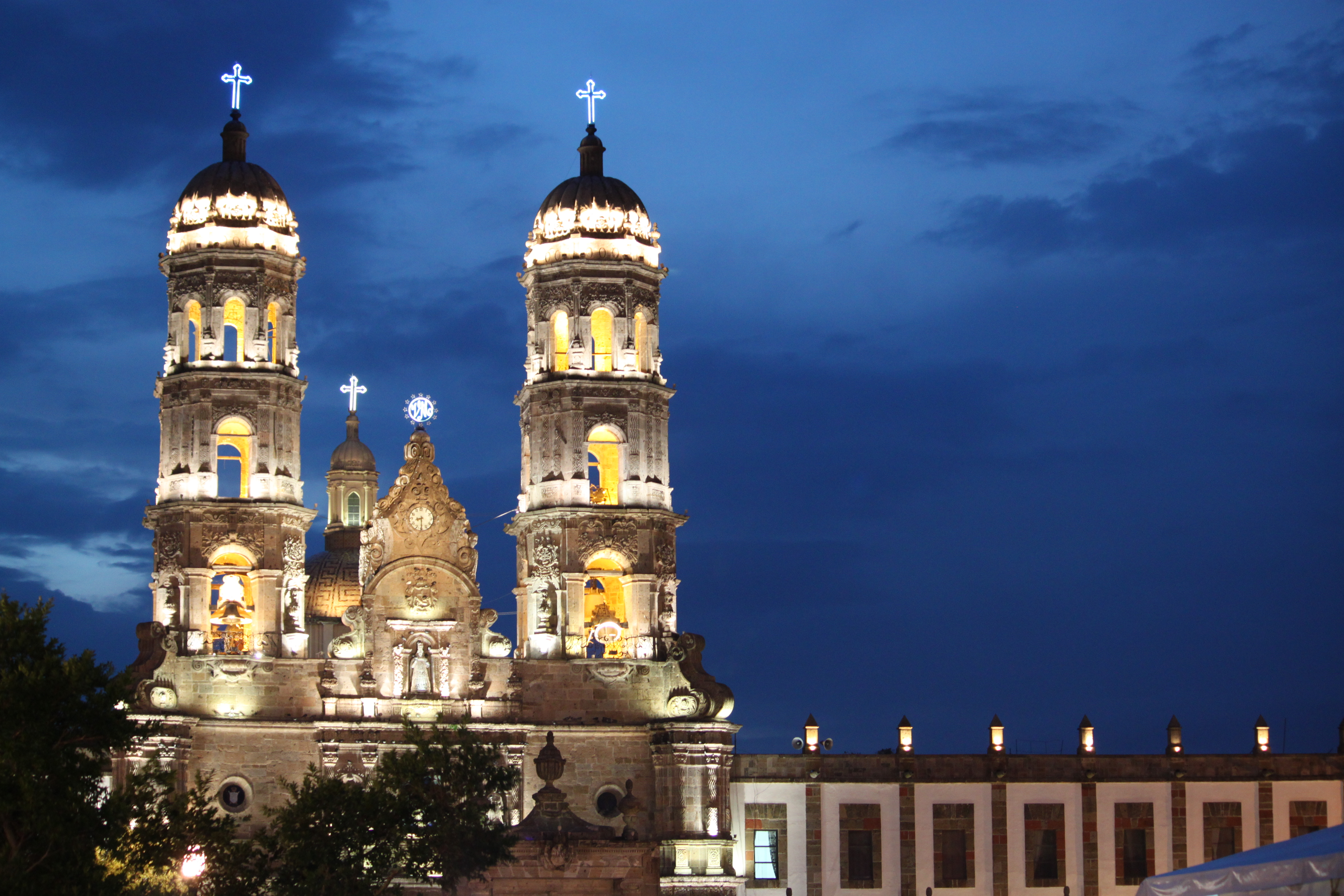 Zapopan Basilica at dusk